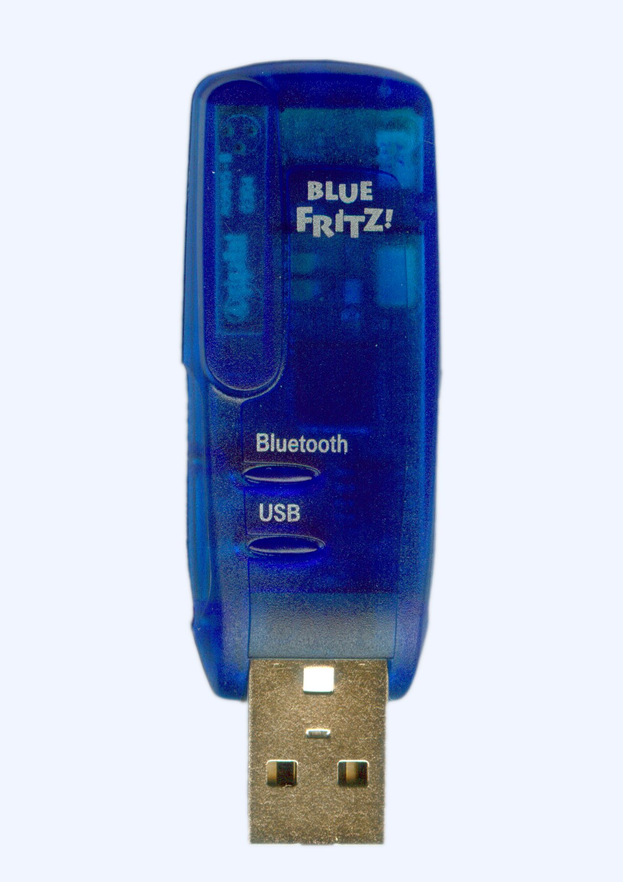 Bluetooth USB-Stick